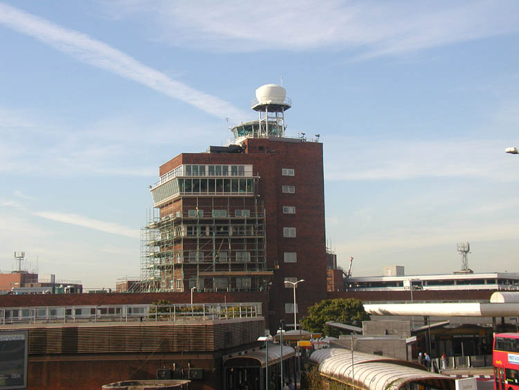 The control tower at London (Heathrow) Airport, seen from Terminal 1. Photographed by Adrian Pingstone in September 2003 and released to the public domain.